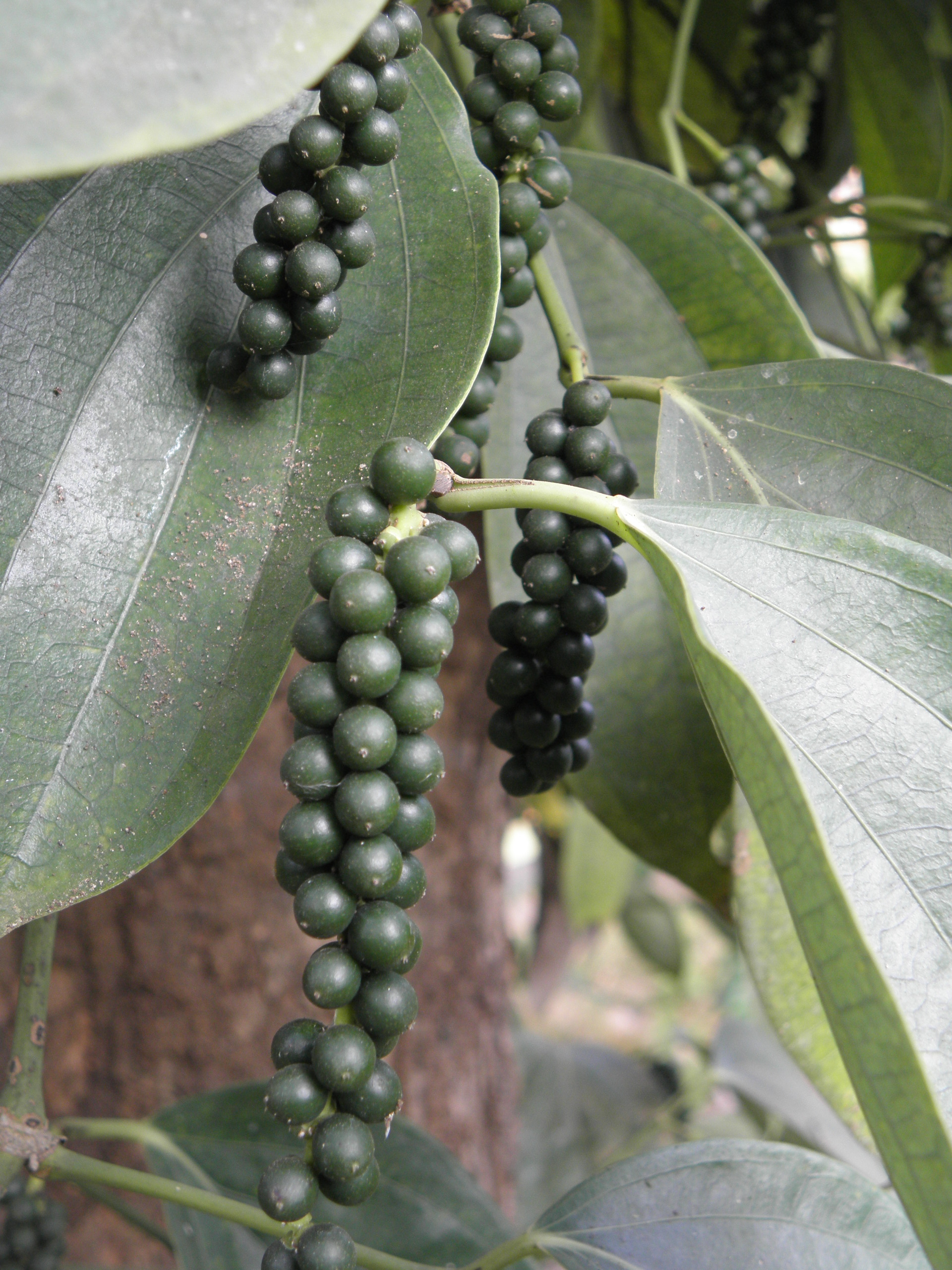 pepper seeds at Wynad, Kerala, India